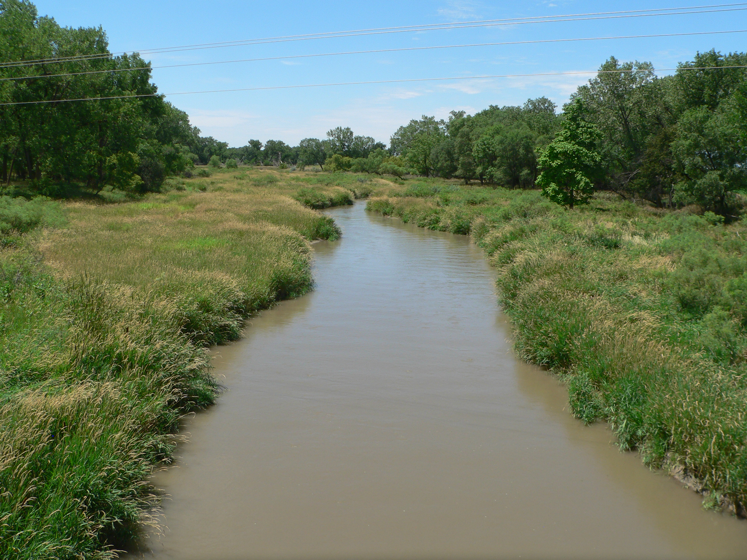 Republican River, looking upstream (westward) from Cambridge State Aid Bridge (Nebraska Highway 47 crossing), just south of Cambridge, Nebraska.